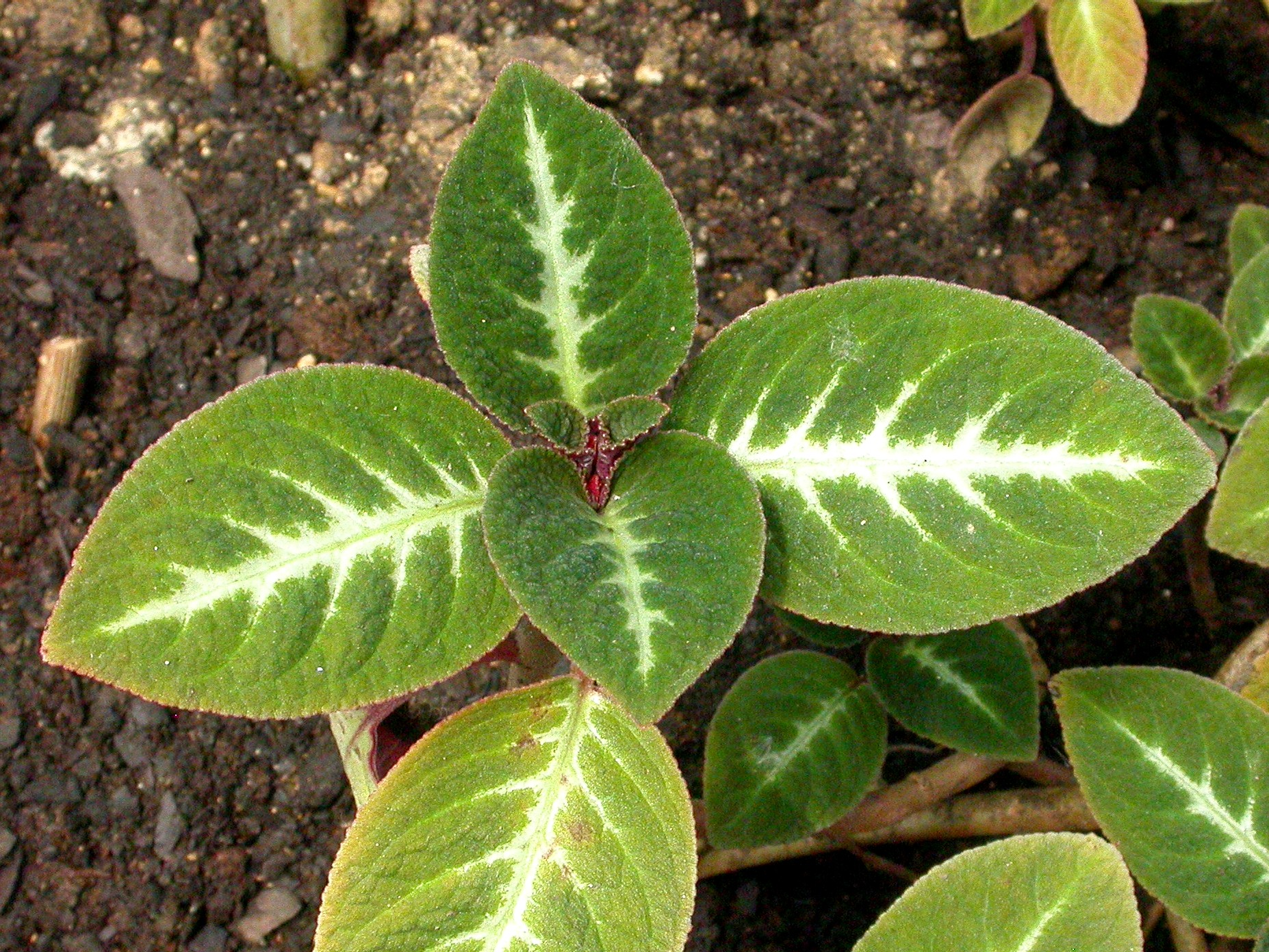 Alloplectus speciosus, Bot. Garden Teplice, Czech Republic